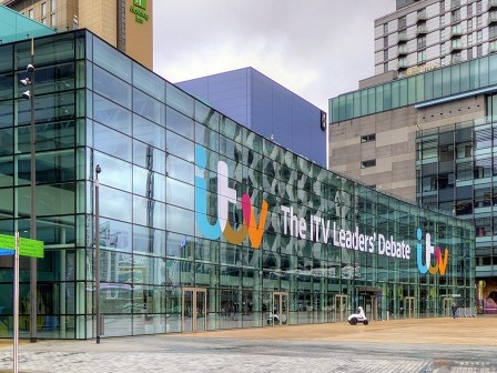 Cropped image of MediaCityUK, dock 10 Studios